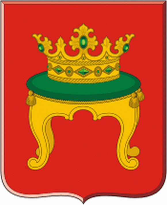 Tver (Tver oblast), coat of arms